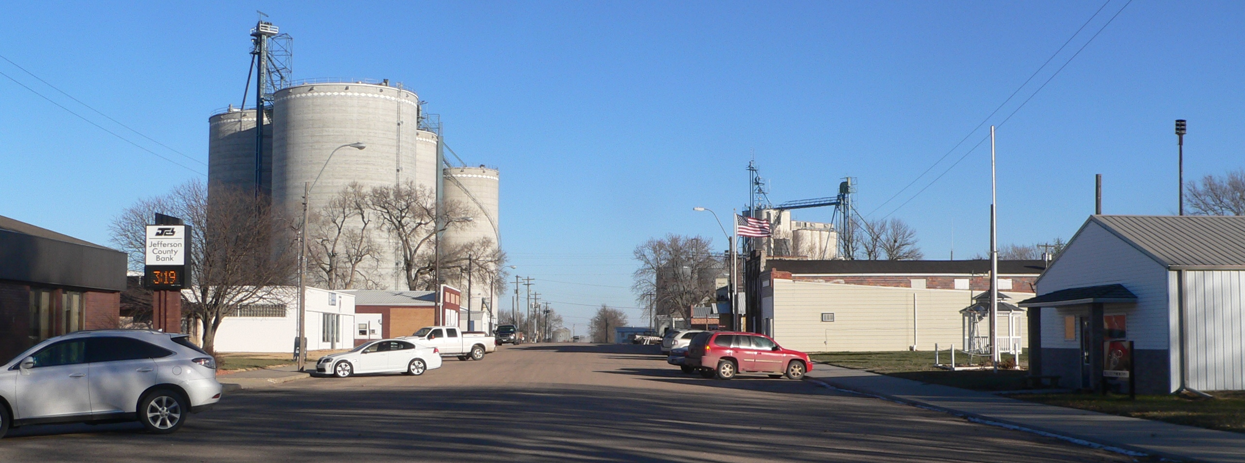 Downtown Daykin, Nebraska: Jefferson Street, looking east from about Purdy Avenue.